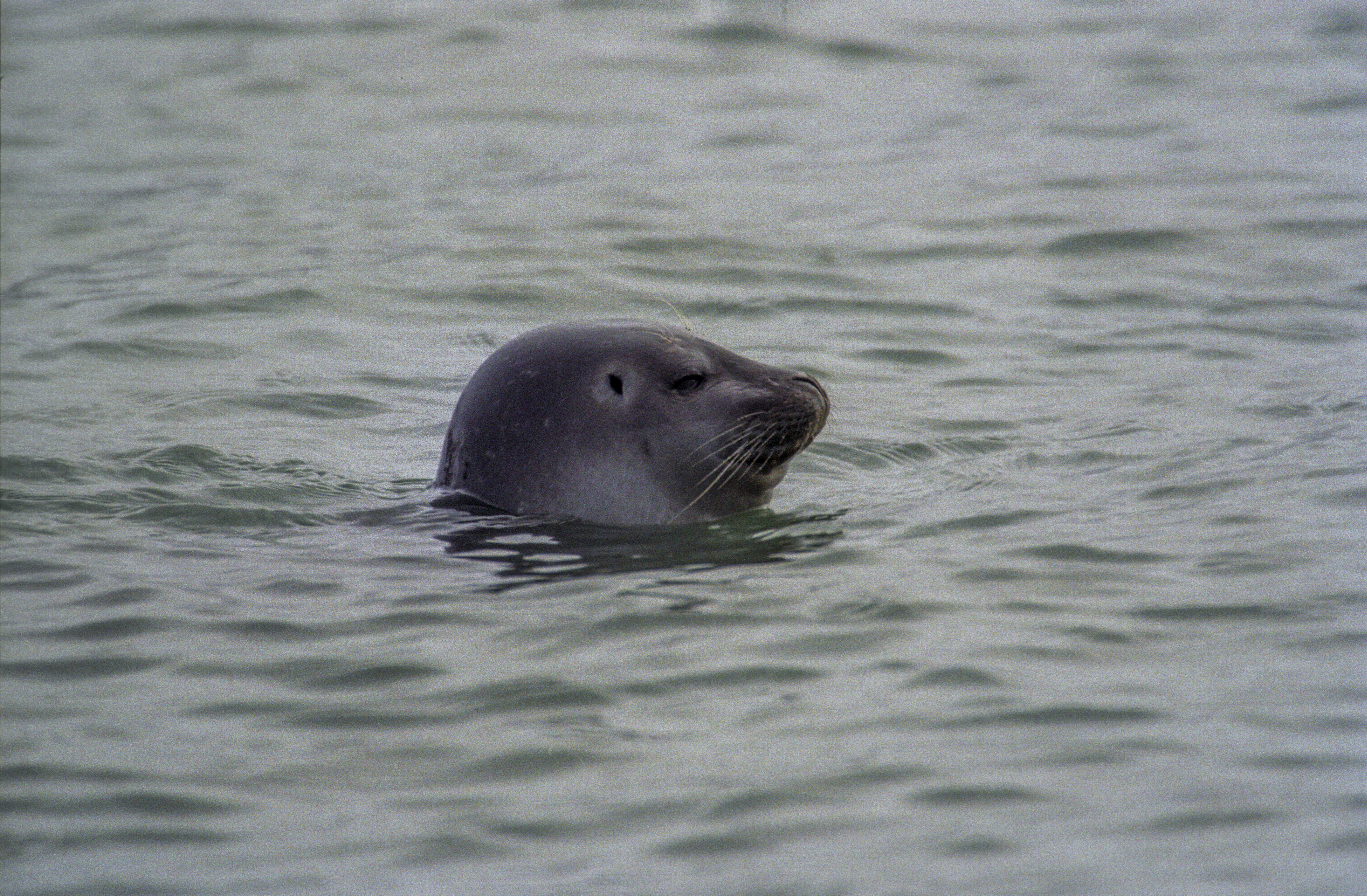 spitsbergen, common seal